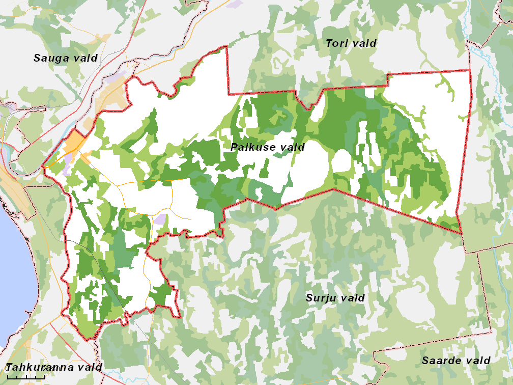 Map of municipality in Estonia